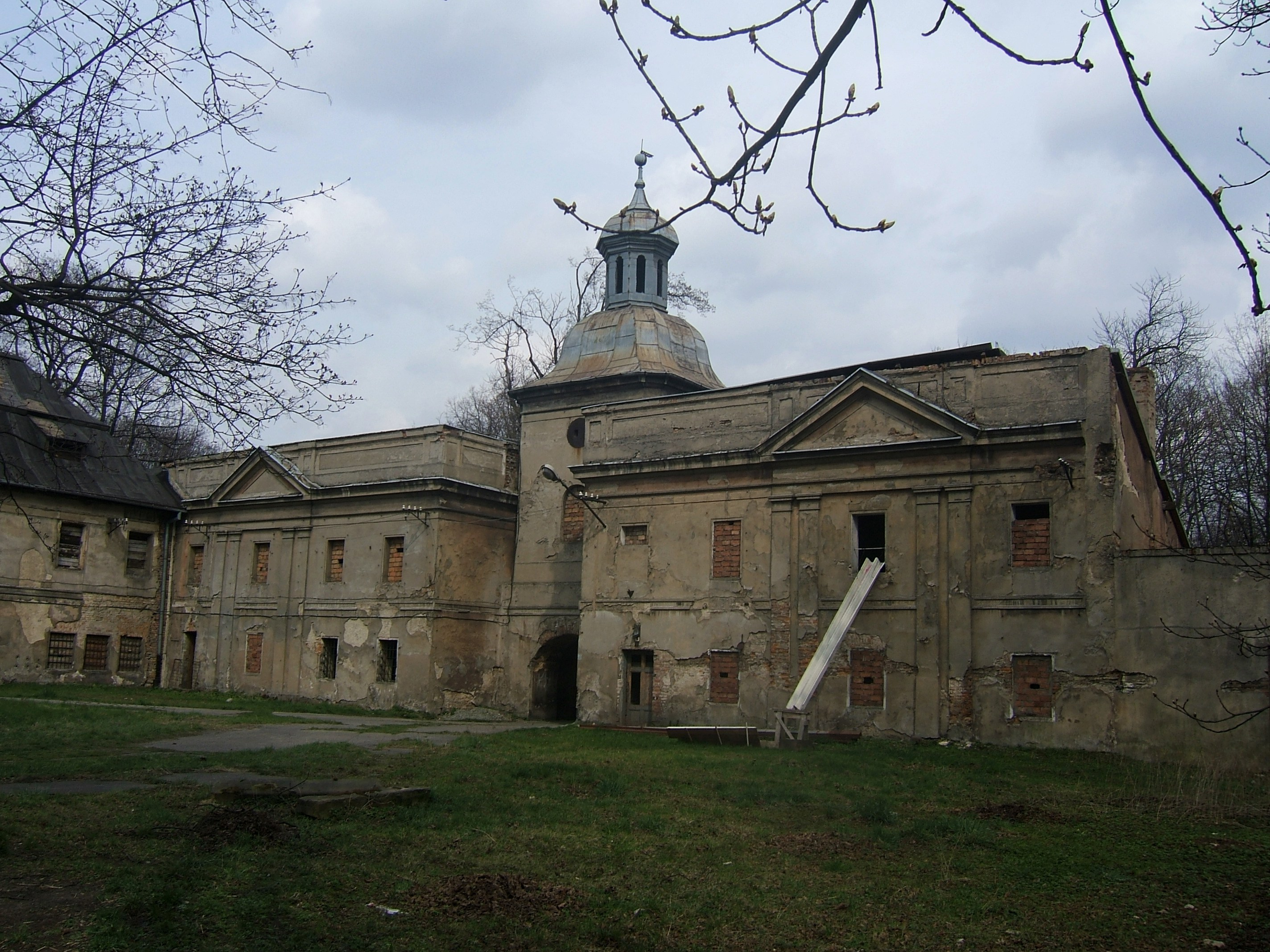 Palac of the Donnersmarck family in Siemianowice Śląskie